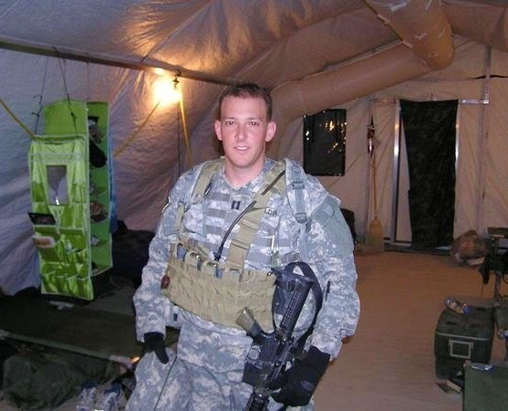 Iraq - Cpt. Lee Zeldin poses for a photo during a 2006 deployment to Iraq. Zeldin, now a major in the Army Reserve, is also a U.S. Congressman for New York.